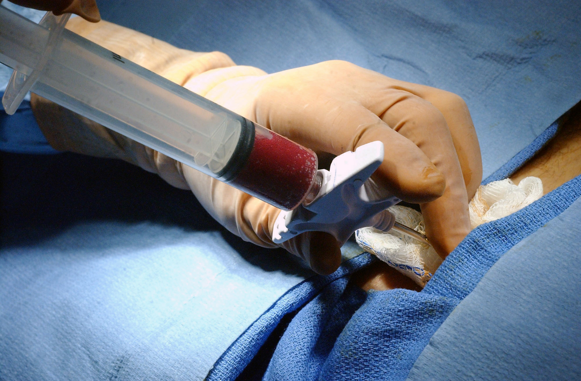 A bone marrow harvest. Description from that page: 021204-N-0696M-180 Georgetown University Hospital, Washington, D.C. (Dec. 4, 2002) -- Surgeon Dr. Hans Janovich performs a bone marrow harvest operation on Aviation Electronics Technician 1st Class Michael Griffioen. The procedure consists of inserting a large-gauge syringe into an area of the hip and extracting the bone marrow. It is transfused into the recipient, and helps to recreate and replenish T-cells and the white and red blood cells killed while undergoing chemotherapy. Griffioen is assigned to the Pre-commissioning Unit Ronald Reagan (CVN 76) and was matched with an anonymous cancer patient through the Department of Defense Marrow Donor Program. U.S. Navy photo by Photographer’s Mate 2nd Class Chad McNeeley.